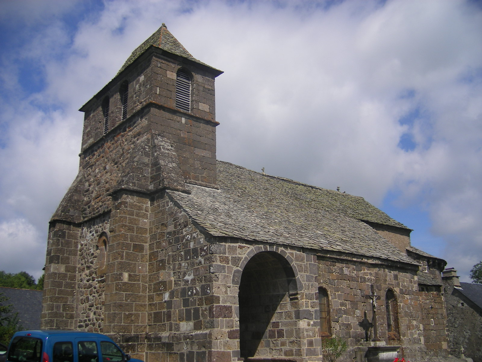 Churches of Saint-Hippolyte